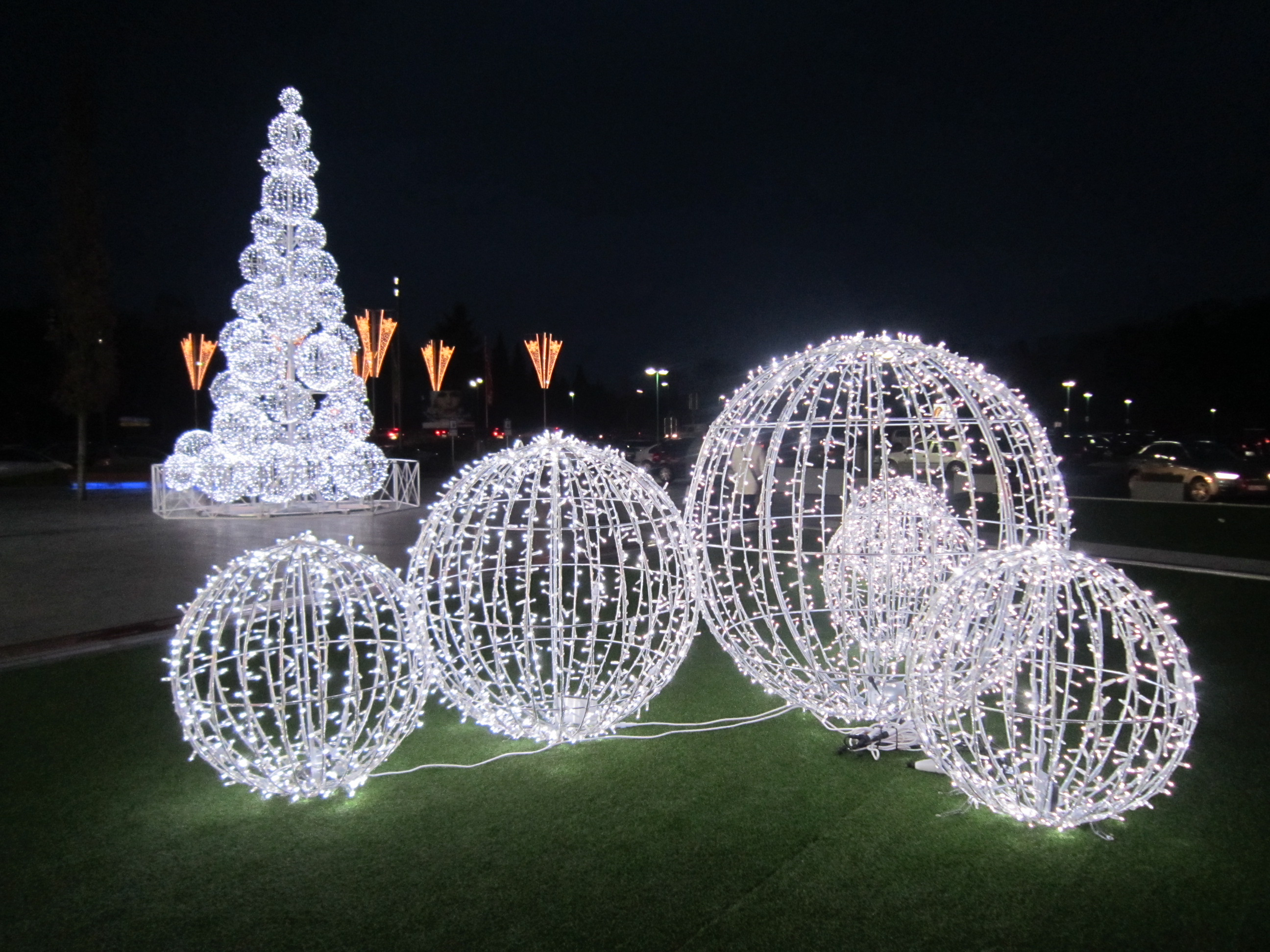 Artificial Christmas tree and balls at Dodenhof (Landkreis Verden, Lower Saxony)